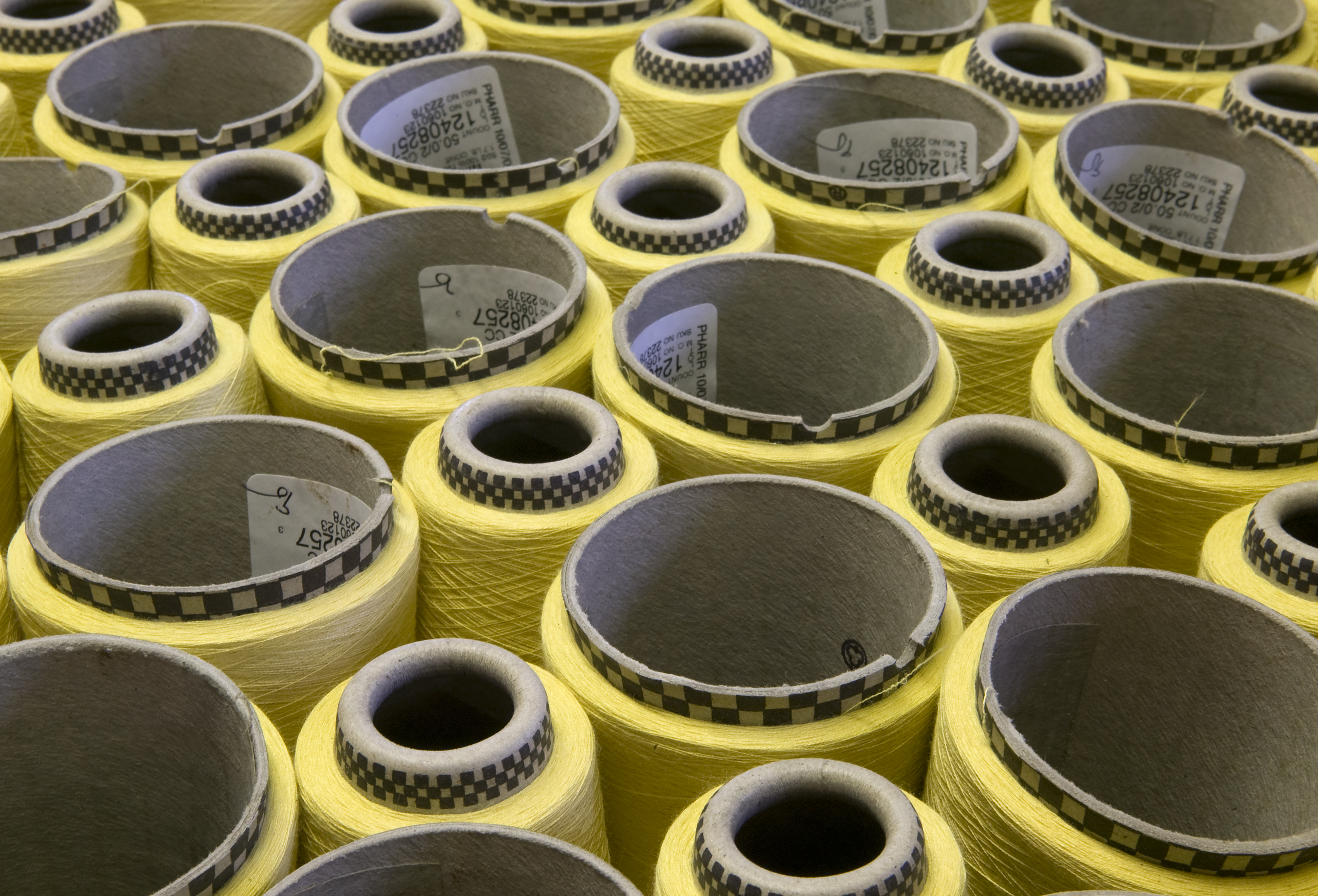 photograph of para-aramid yarn on tubes